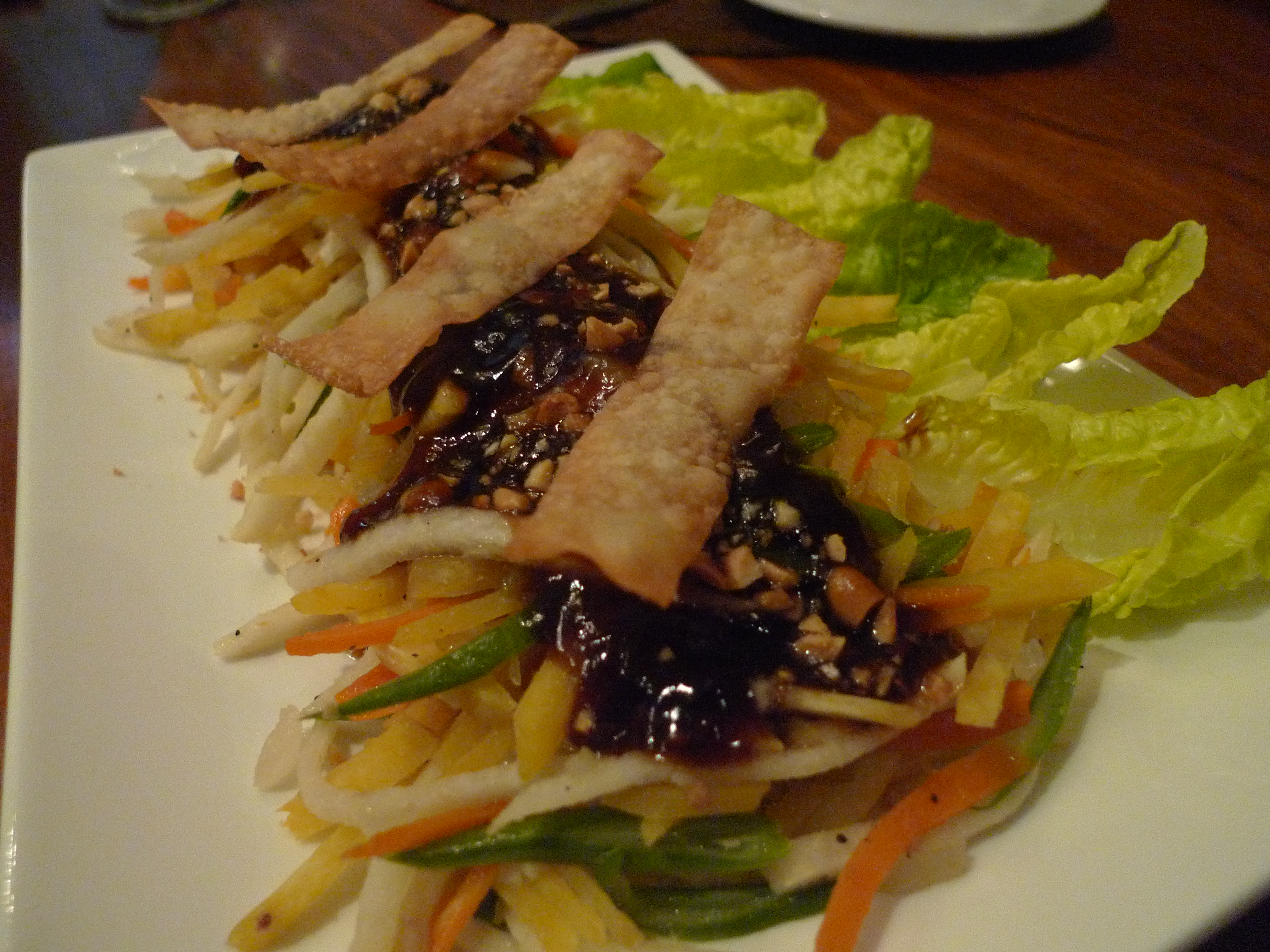 Cafe Roces Lumpiang Hubad